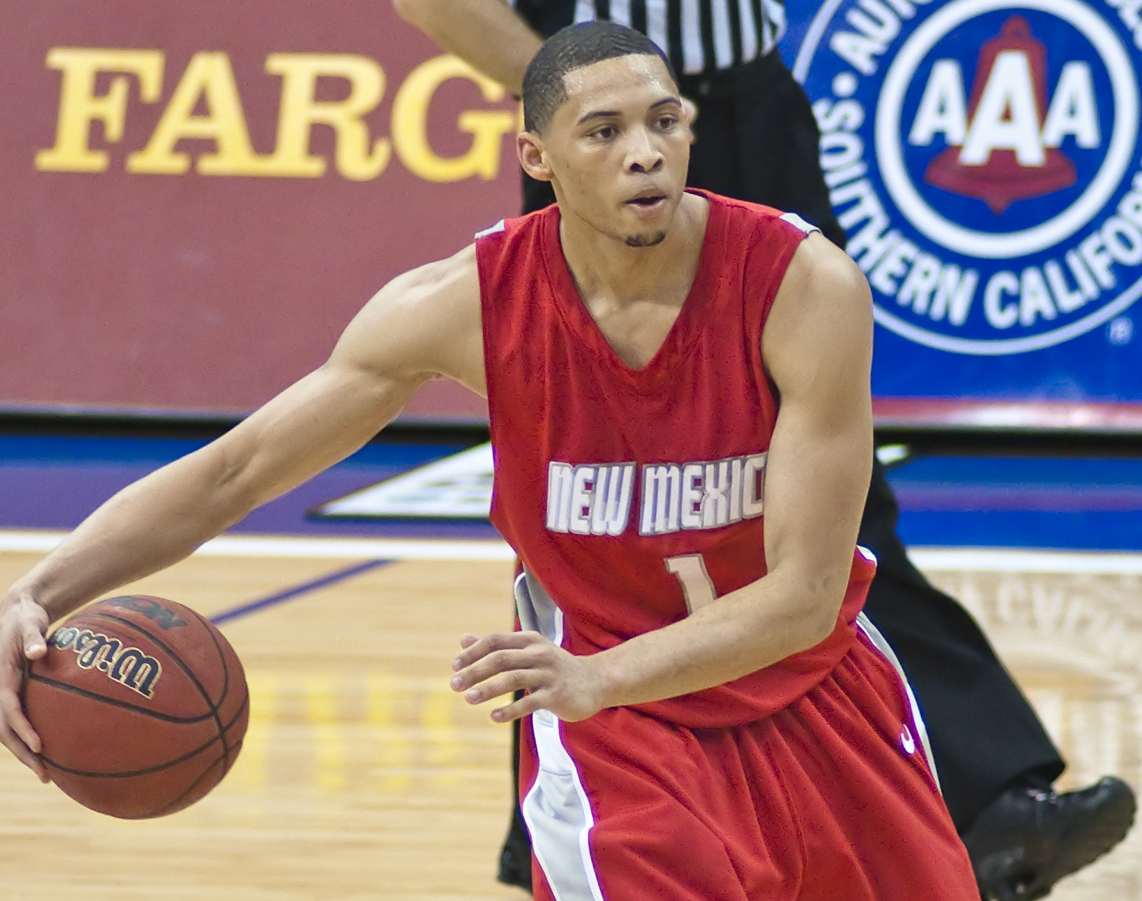 Darlington Hobson, University of New Mexico basketball player